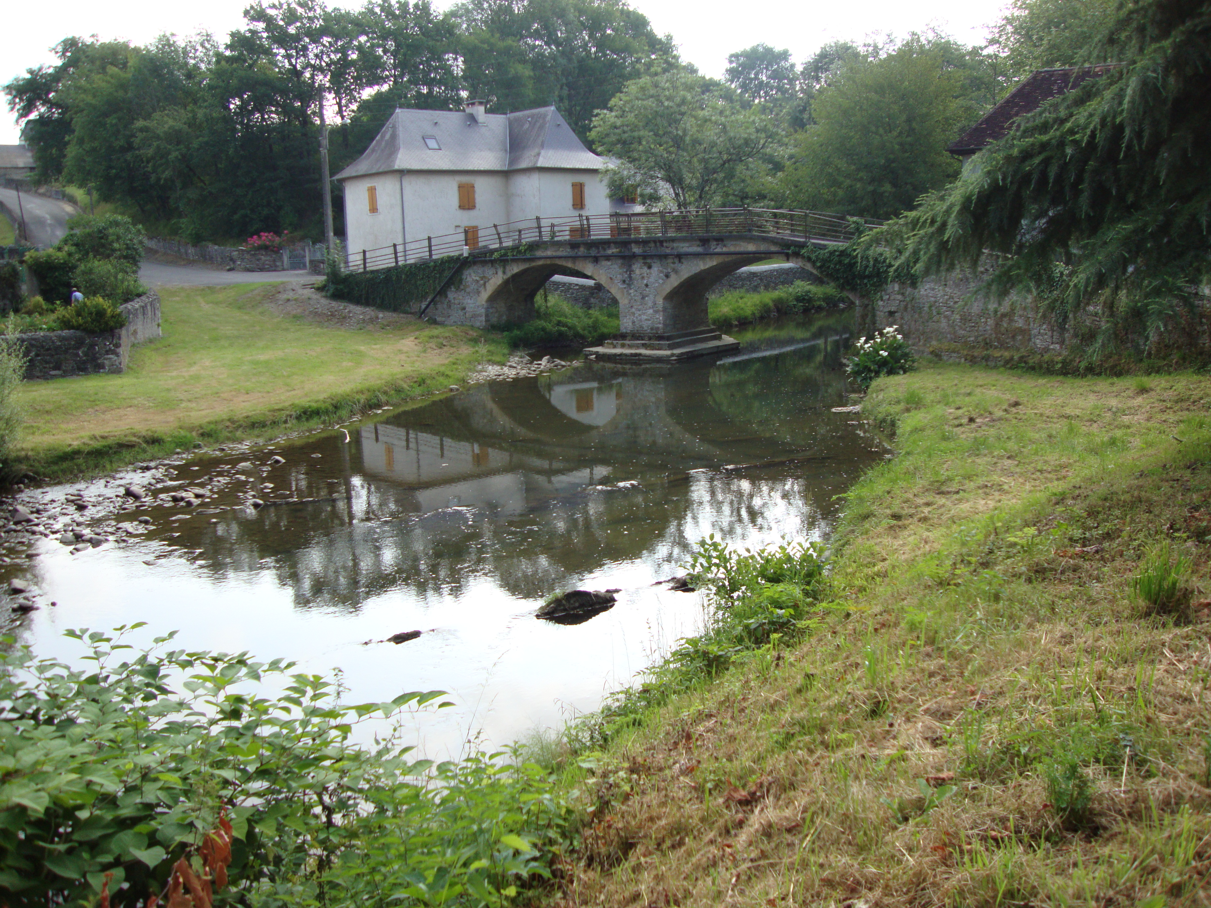 Préchacq-Josbaig (Pyr-Atl, Fr) bridge over the Joos river.